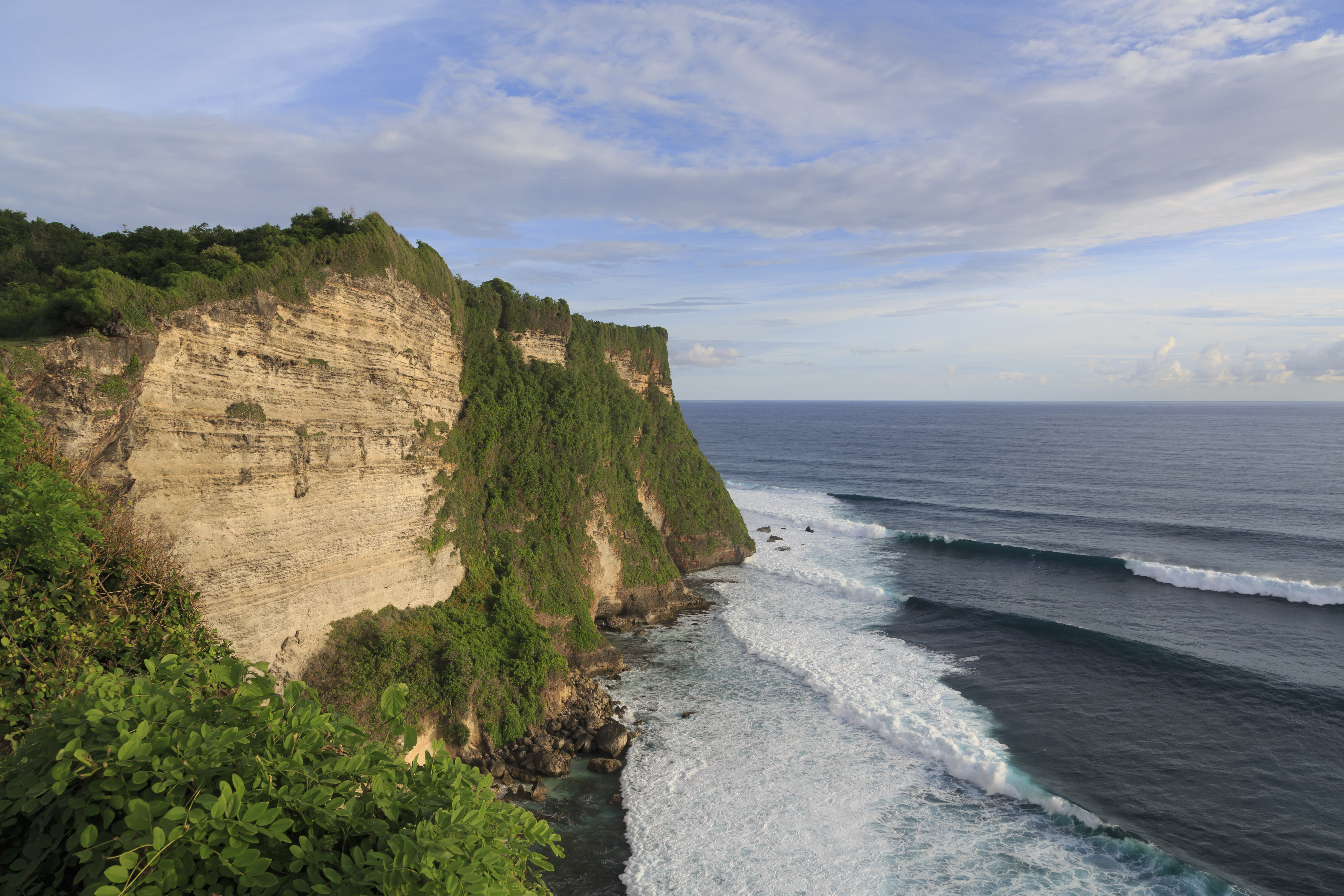 Kuta, Bali, Indonesia: The cliffs at Pura Luhur Uluwatu